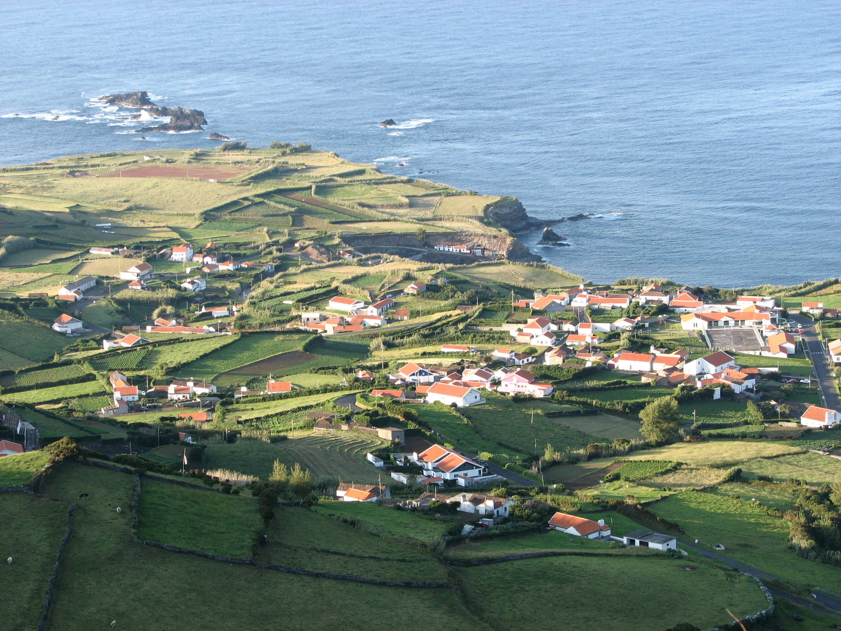 The village of Ponta Delgada, Flores, Azores.